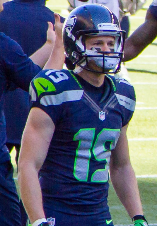 49ers at Seahawks 2014